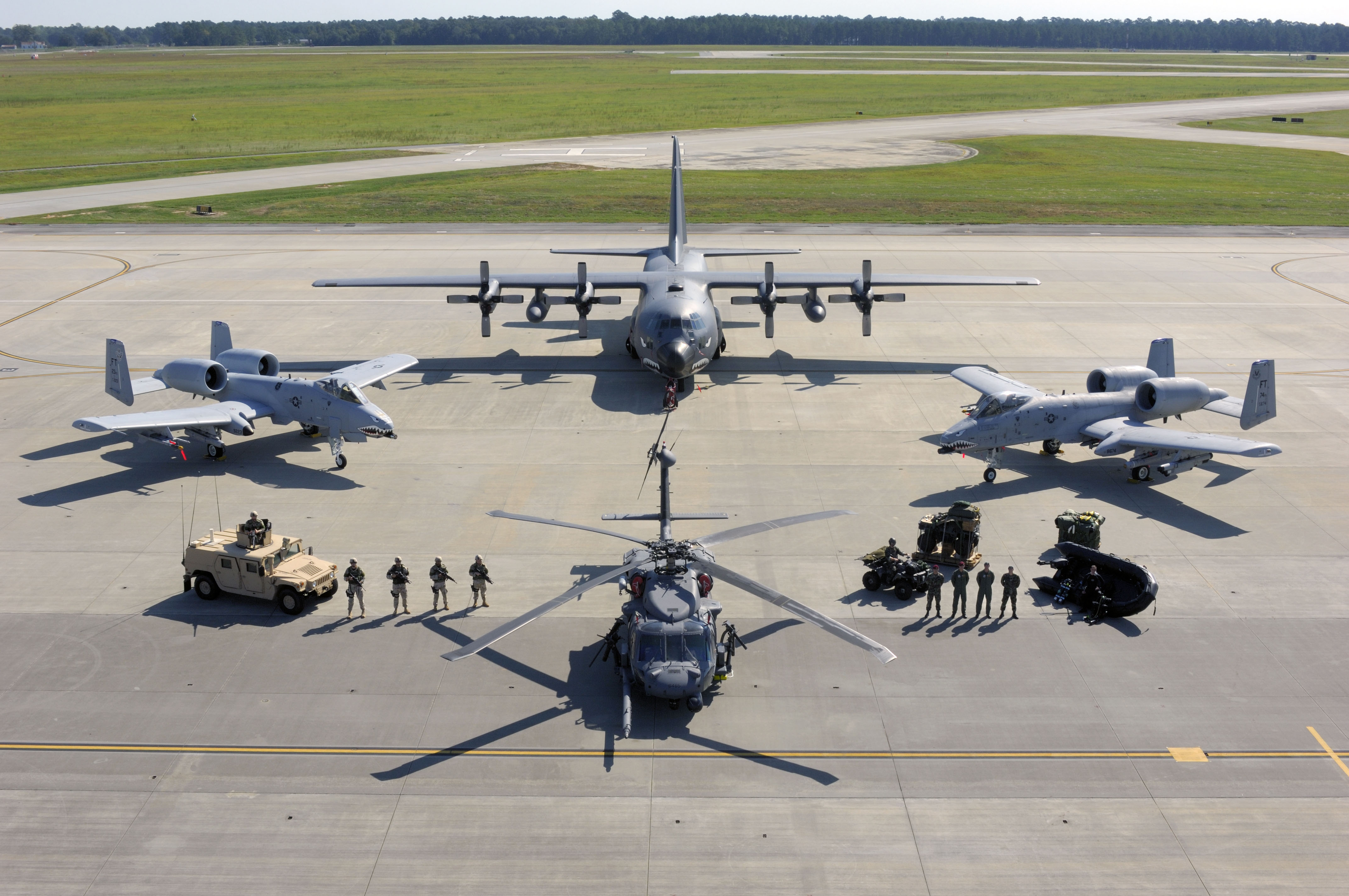 23rd Wing and 820th Security Forces Group & Security Forces Squadron